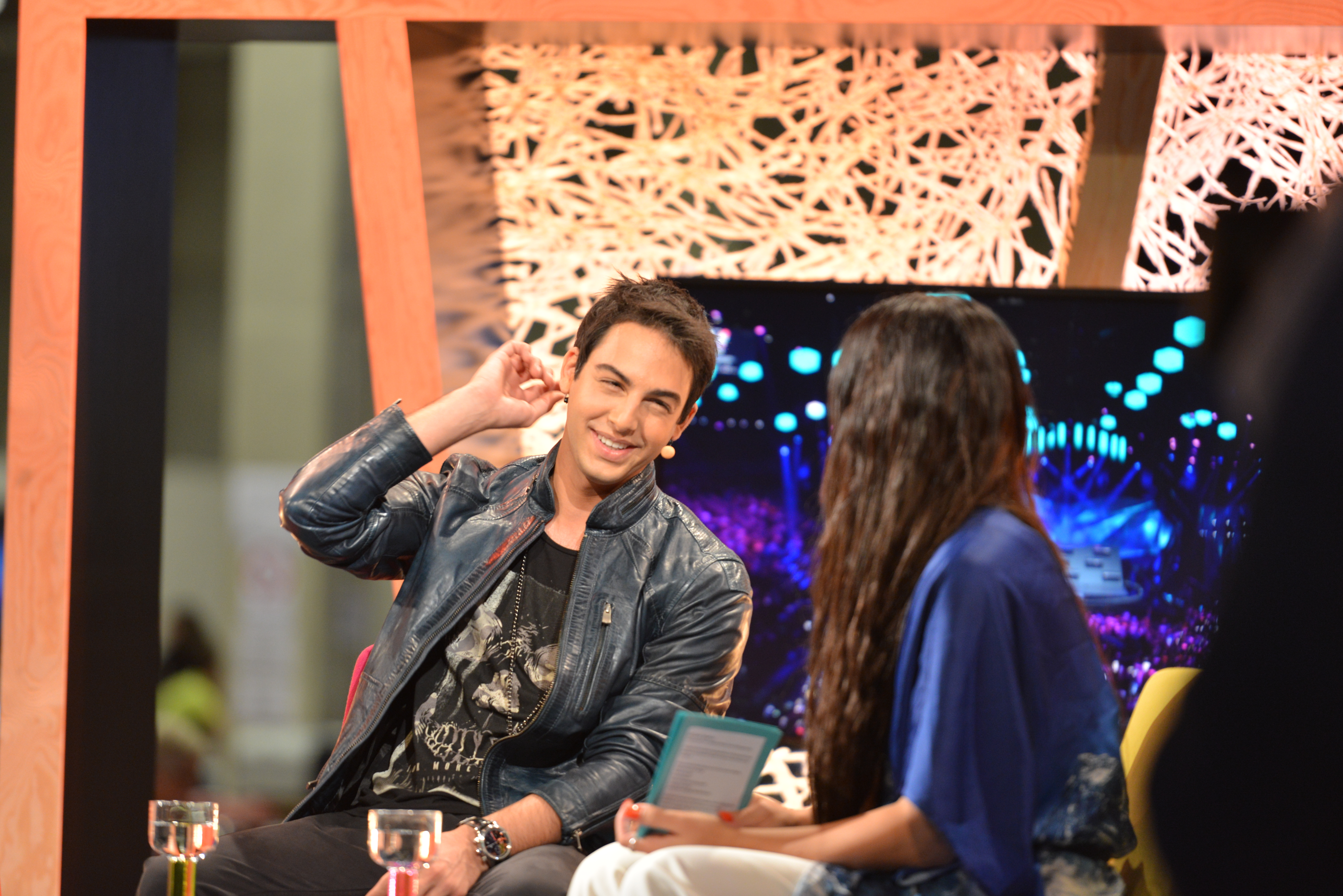 Darin Zanyar is interviewed by Gina Dirawi in the Swedish TV-show Studio Eurovision in 2013.